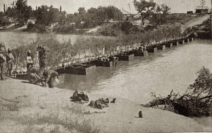 Pontoon bridge built by the British over the Modder River in 1899 after the railway bridge was demolished by retreating Boer forces during the Second Boer War.